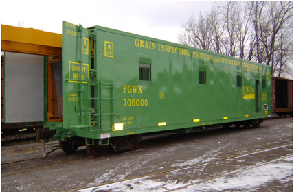 (GIPSA’s newest unit FGWX700000, one of two railroad cars that replaced two 50 year old test car units) Railroad Track Scale testing service is provided by GIPSA using five special designed Test Weight Carts of calibrated weight up to 110,000 pounds traceable to NIST that are transported on the rail lines in special box car units with self contained power generation and hoist equipment.